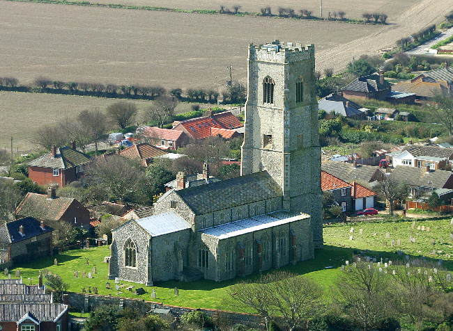 Saint Mary's church, Happisburgh, Norfolk, England viewed from the air.